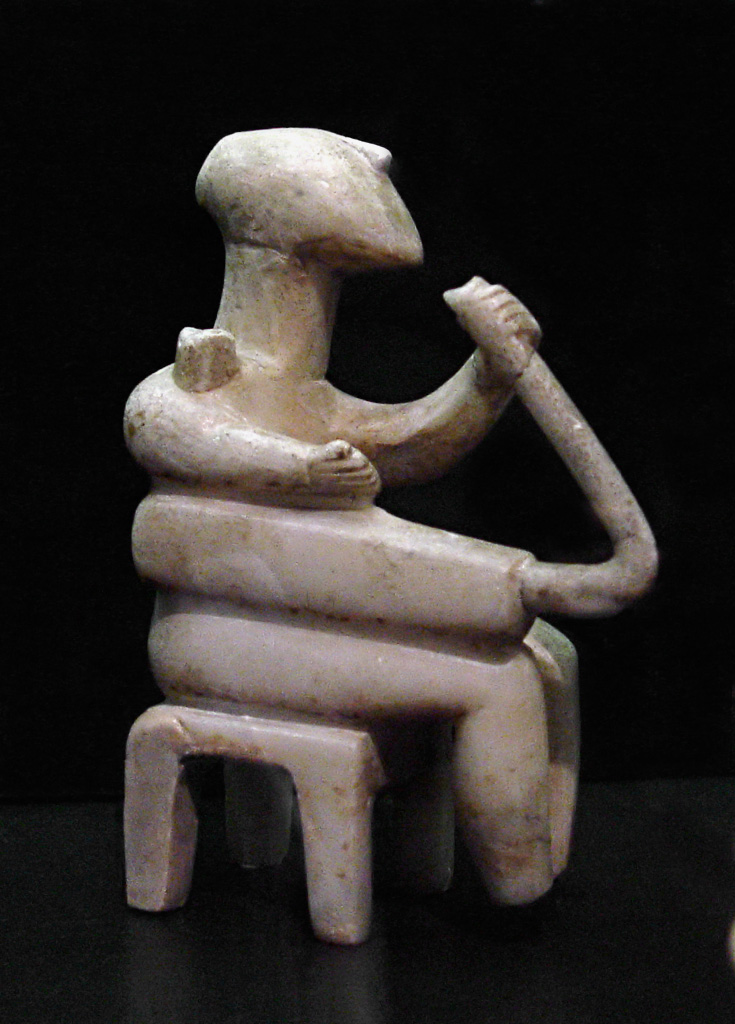 Harp-player, cycladic culture 2700 to 2500 BC